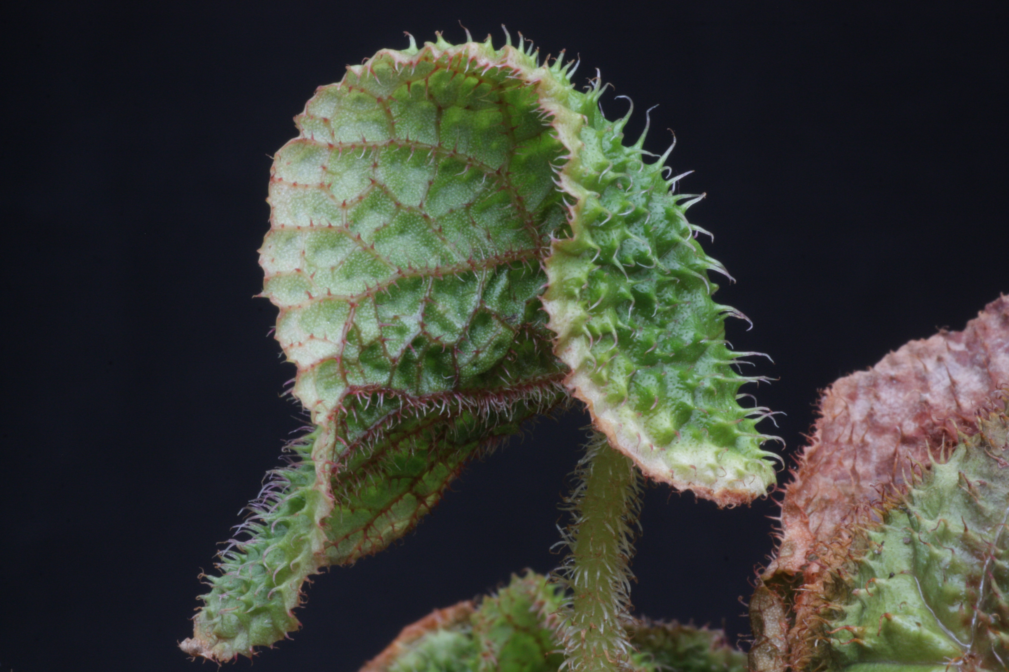 Begonia lacunosa Family : Begoniaceae Accession :2000010260 National Botanical Garden of Belgium Meise Botanic Garden Native nameNationale Plantentuin van België / Jardin Botanique National de BelgiqueLocationDomein van Bouchout / Domaine de BouchoutNieuwelaan 381860 MeiseBelgiumCoordinates50° 55′ 42.28″ N, 4° 19′ 36.78″ E Established1826: established, 1870: became publicly owned,Web page control : Q3052500 VIAF: 159423716 ISNI: 0000 0001 2195 7598 LCCN: n50078011 NLA: 35880480 SELIBR: 120680 WorldCat institution QS:P195,Q3052500 Created under the volunteer photographer program at the National Botanical Garden of Belgium.